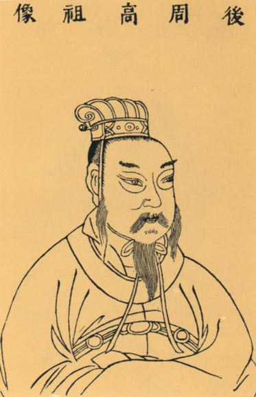 Block print portrait of Guo Wei